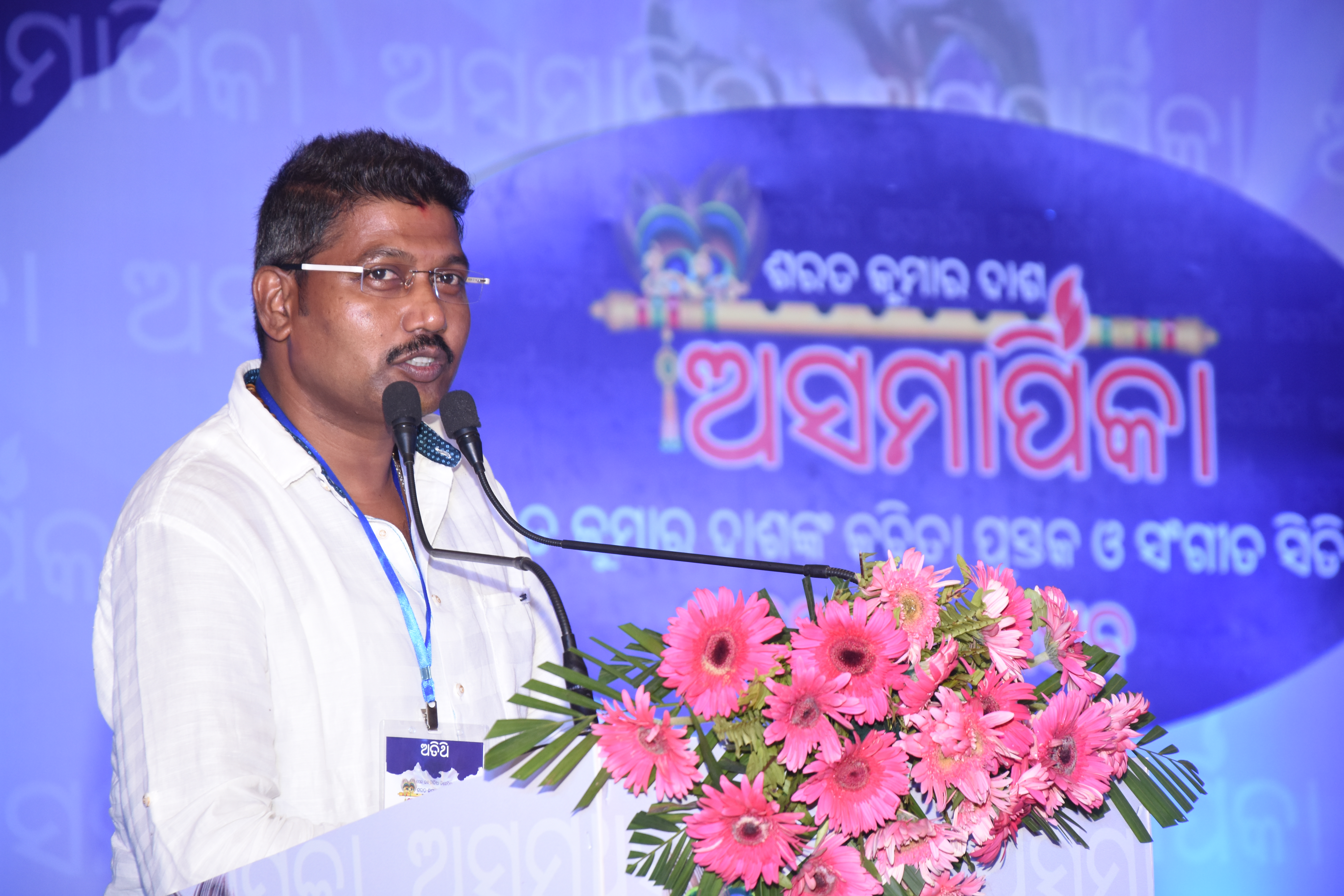 Odia music director Prem Anand (ପ୍ରେମ୍ ଅ‍ାନନ୍ଦ) at an event organised by Odia Media Private Limited and PEN IN Books at Hotel Swosti Premium, Bhubaneswar